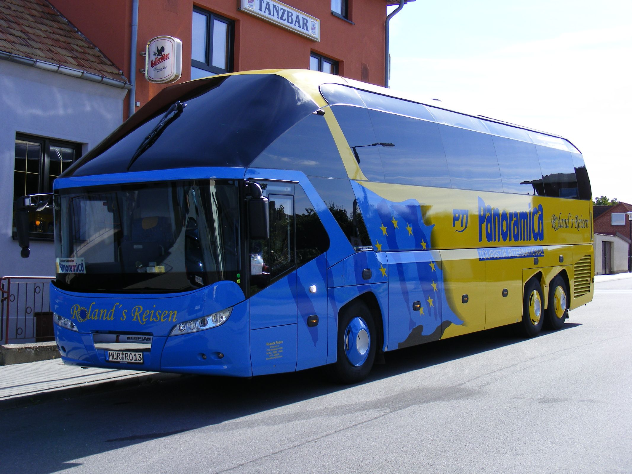 Owned by Roland Sroka, Neoplan Starliner L, with MAN D26 Common Rail engine, 13,9 metres long, 480hp. Registration for Müritz. RO no doubt for Roland.